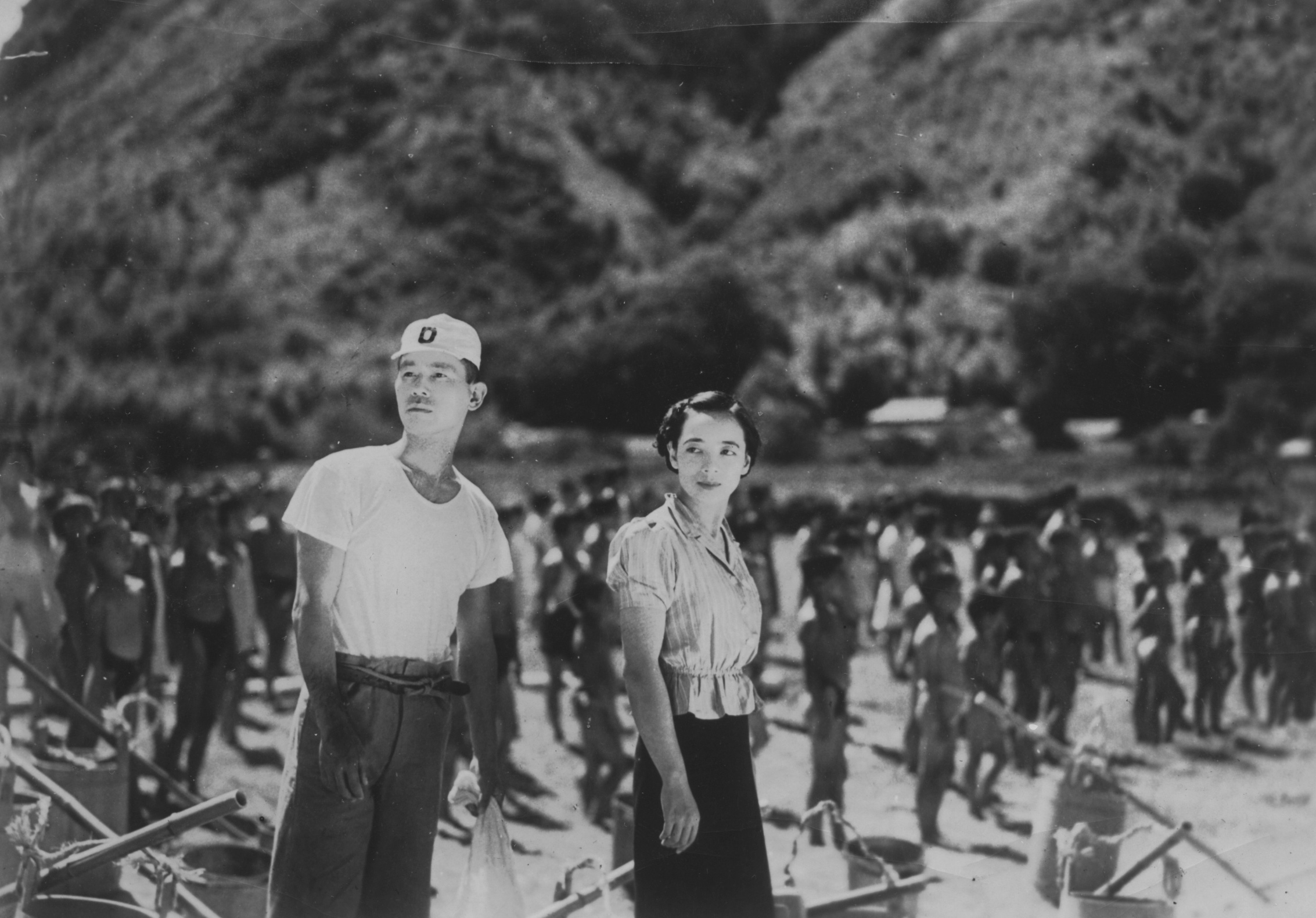 Chishū Ryū and Kuniko Miyake in Mikaeri no tō (みかへりの搭) directed by Hiroshi Shimizu - 1941